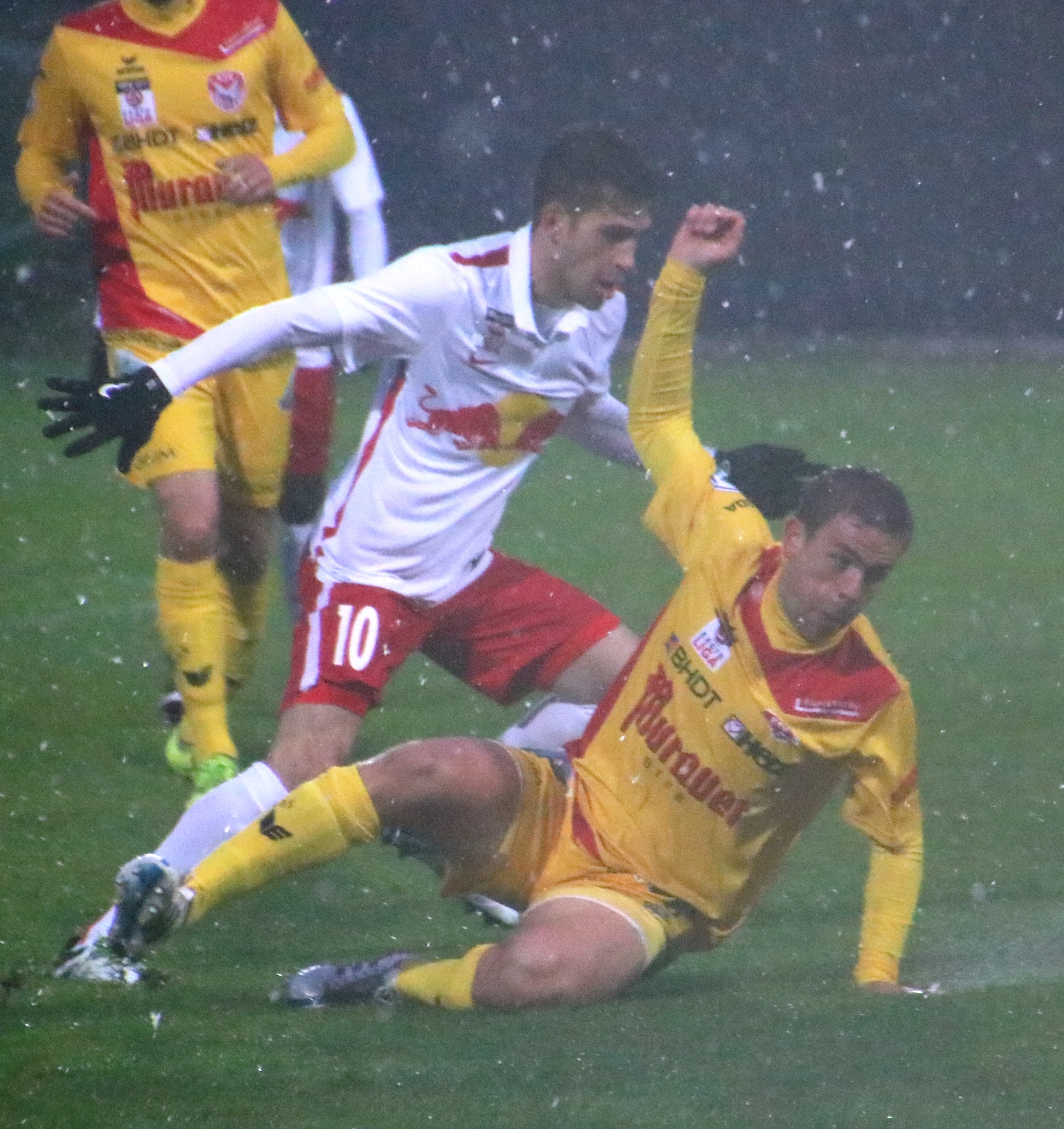 league match Austria 2nd league